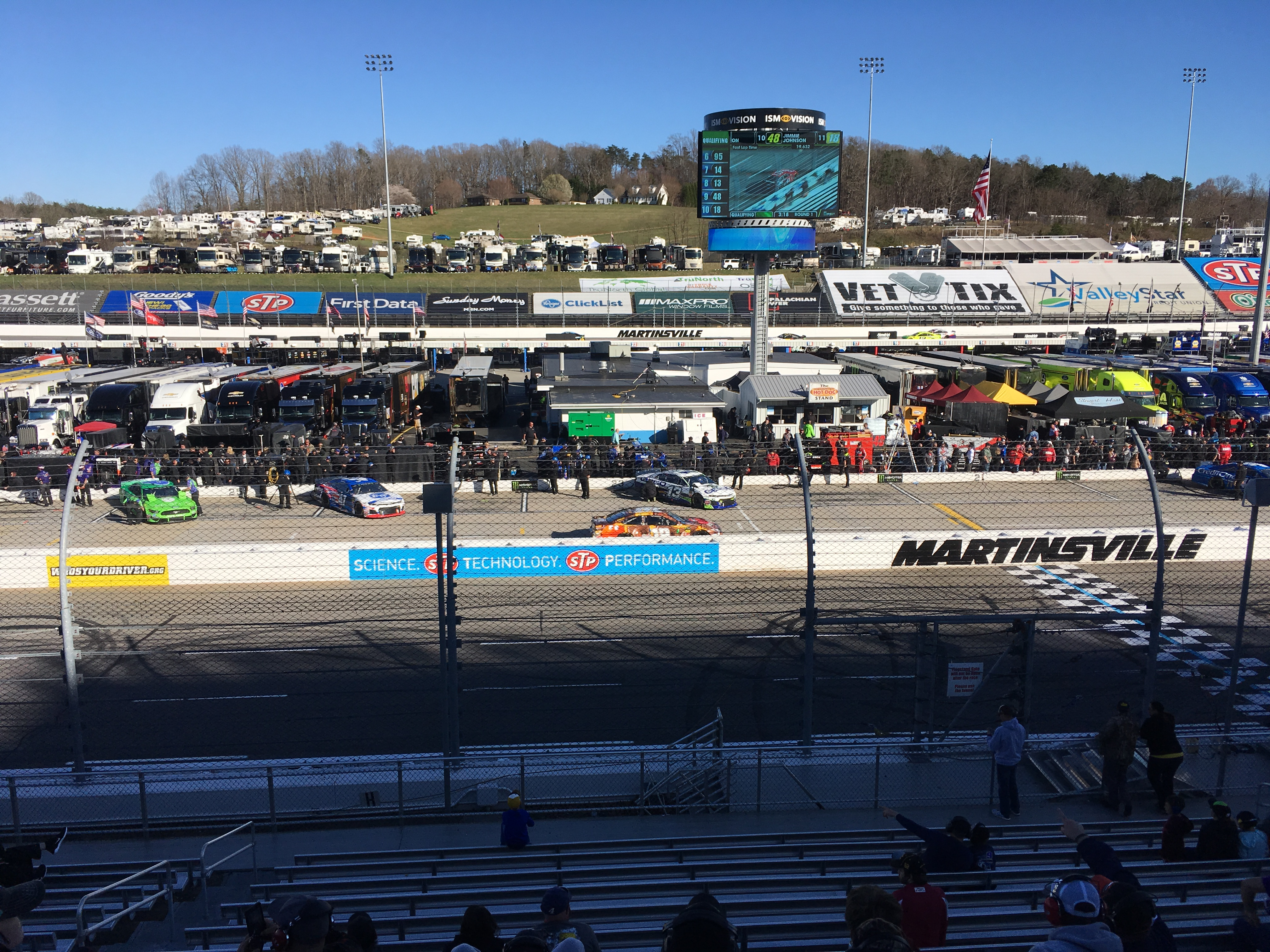 Qualifying for the 2019 STP 500 at Martinsville Speedway viewed from the frontstretch. Kyle Busch (#18) drives by on pit road.